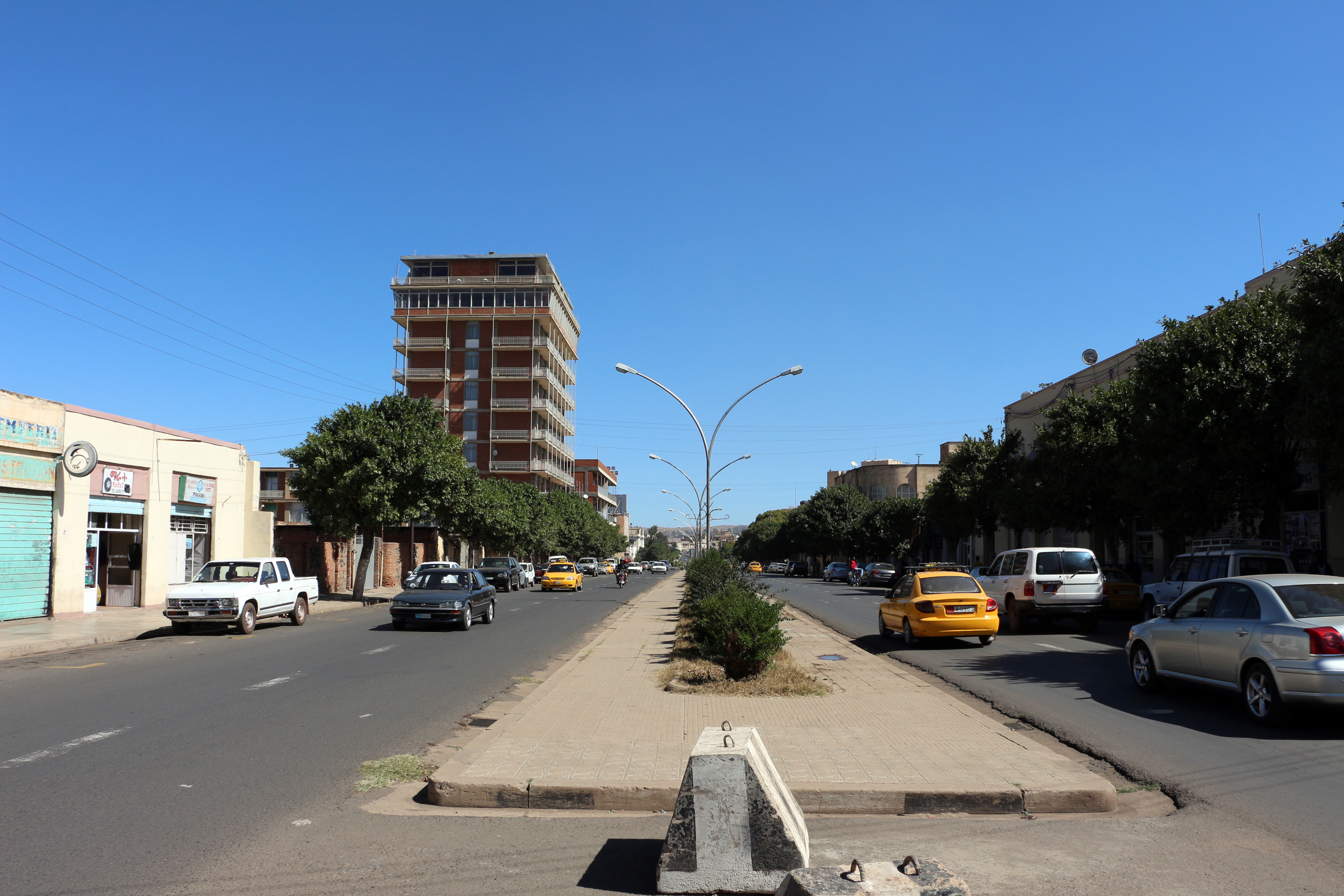 Buildings in Asmara